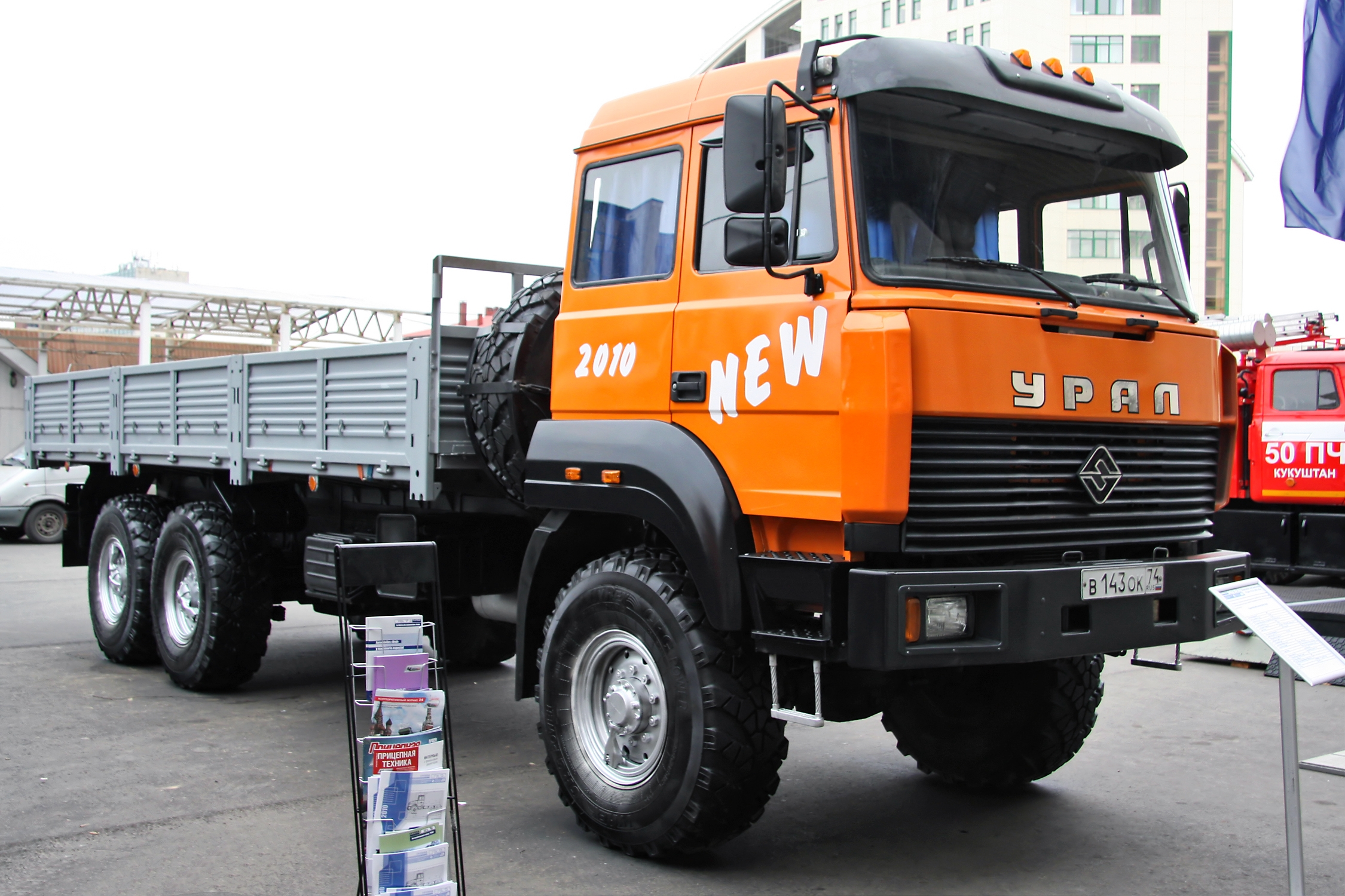 Ural-4320-3951-58 truck in 2010.